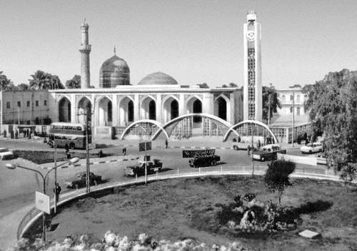 An outer view of Abu Hanifa mosque in Adhamiyah, Baghdad in 1960.